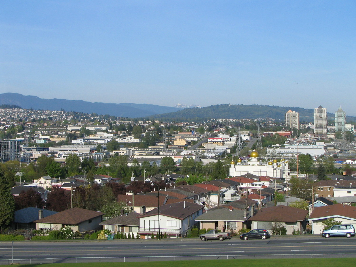 This image was created by me, Flying Penguin of Pacific Spirit Photography of Burnaby, British Columbia, Canada.